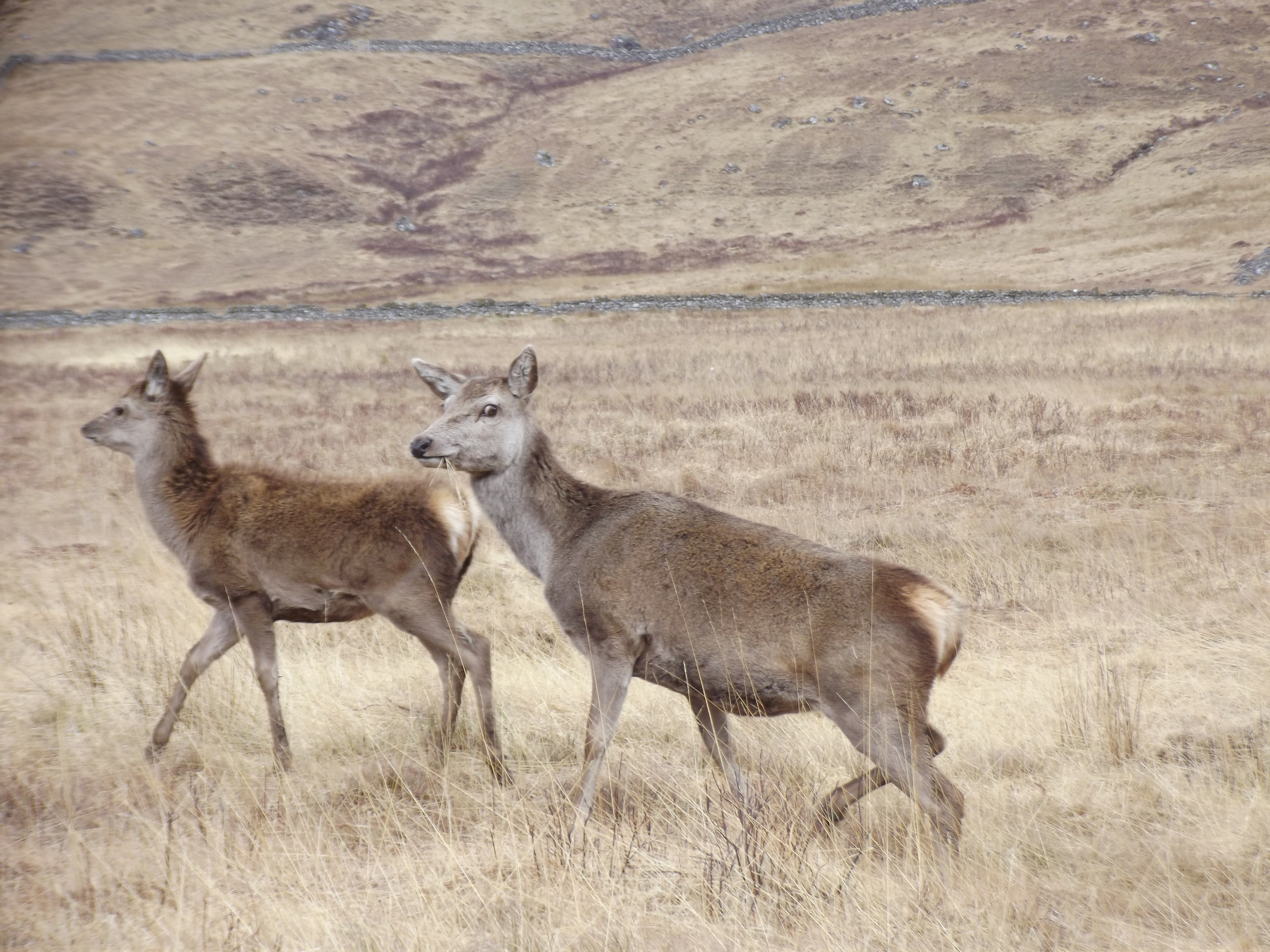 Cervus elaphus in the Scottish Highlands